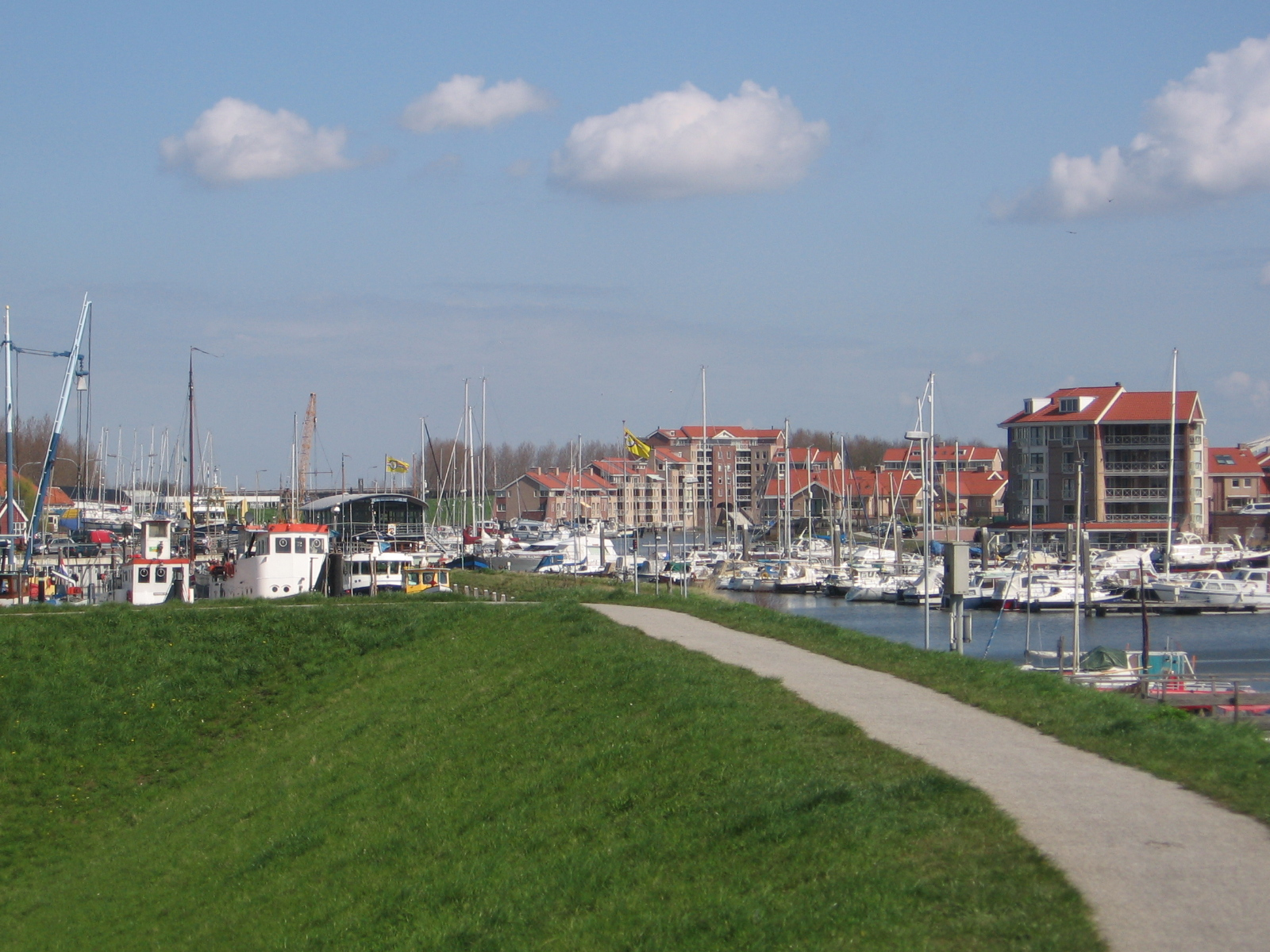 Tholen